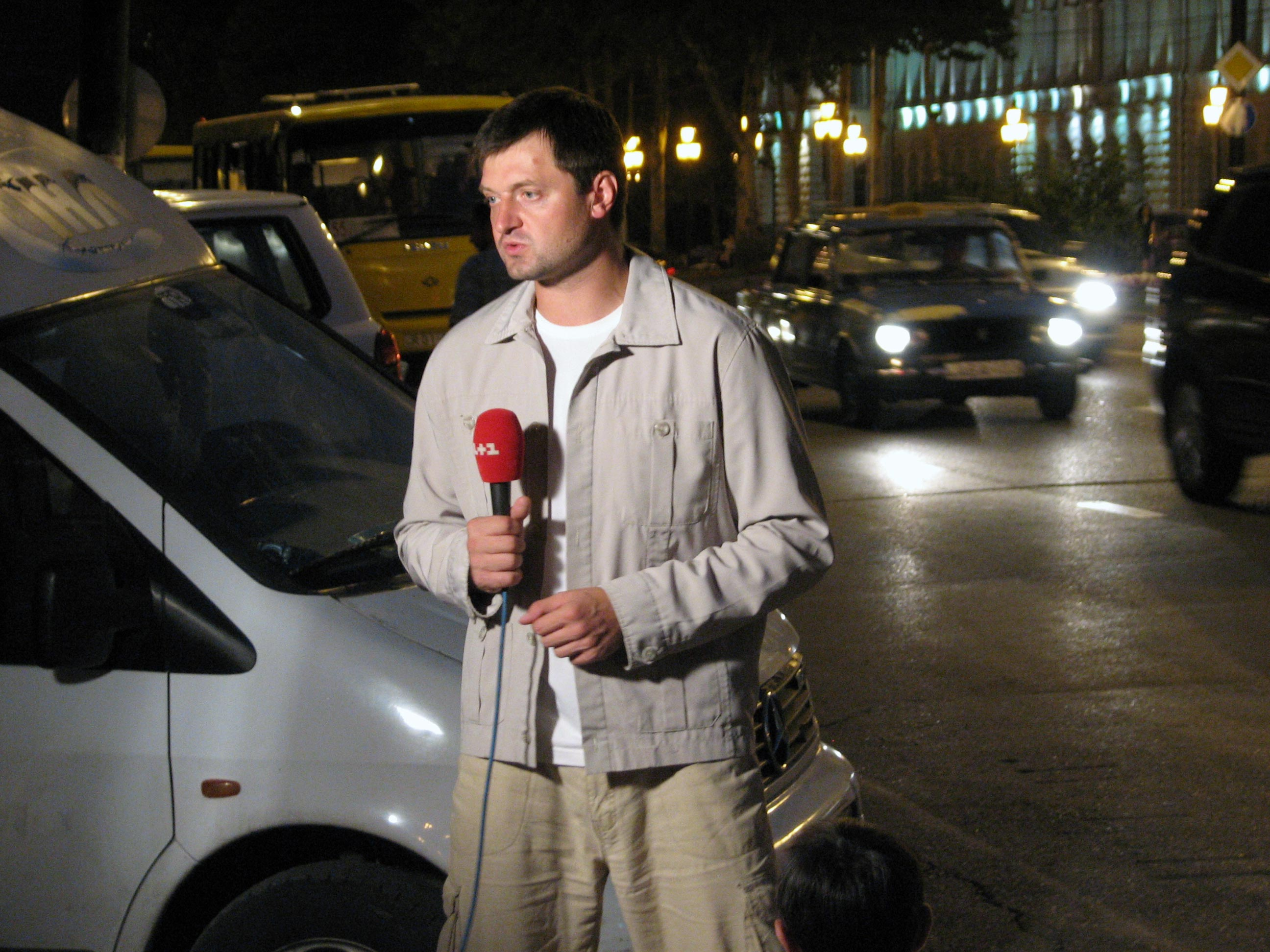 Reporter from the Ukrainian TV-station 1+1 reporting live outside the parliament in Tbilisi, Georgia during the Russian-Georgian war.